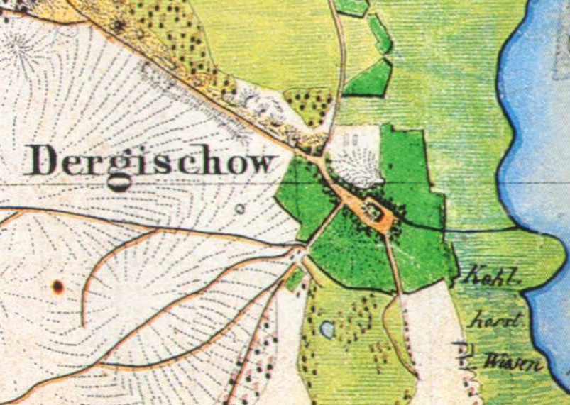 Dergischow/Horstfelde, Stadt Zossen, Brandenburg, Deutschland, Ausschnitt aus dem Urmesstischblatt von 1840, Blatt Zossen 3749